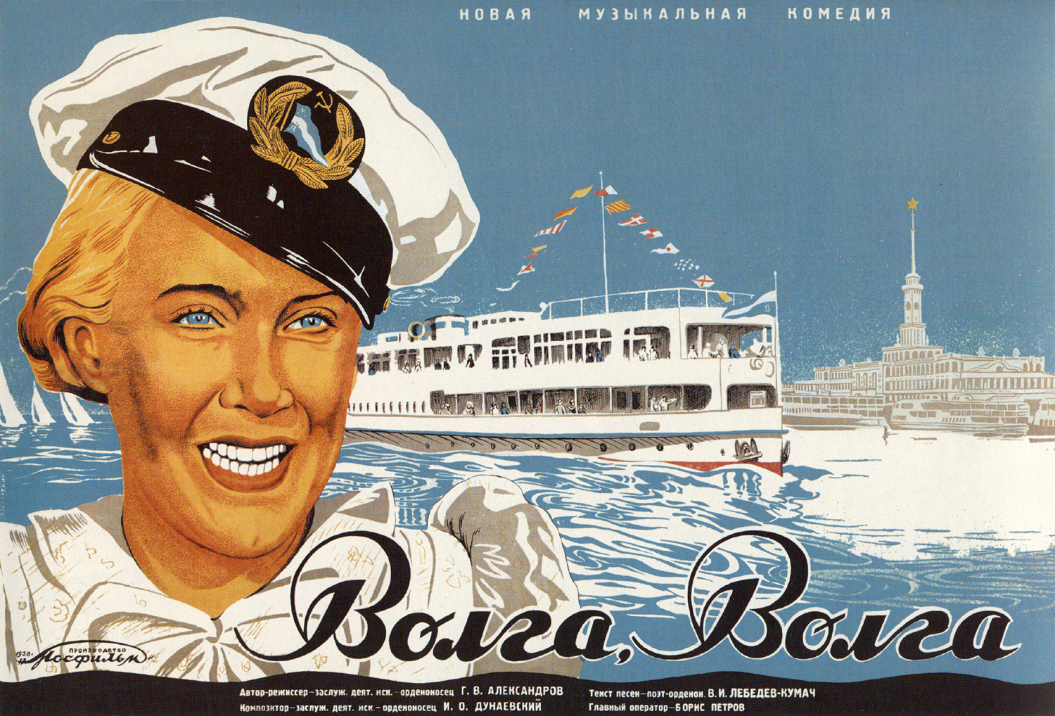 Poster for Volga-Volga movie